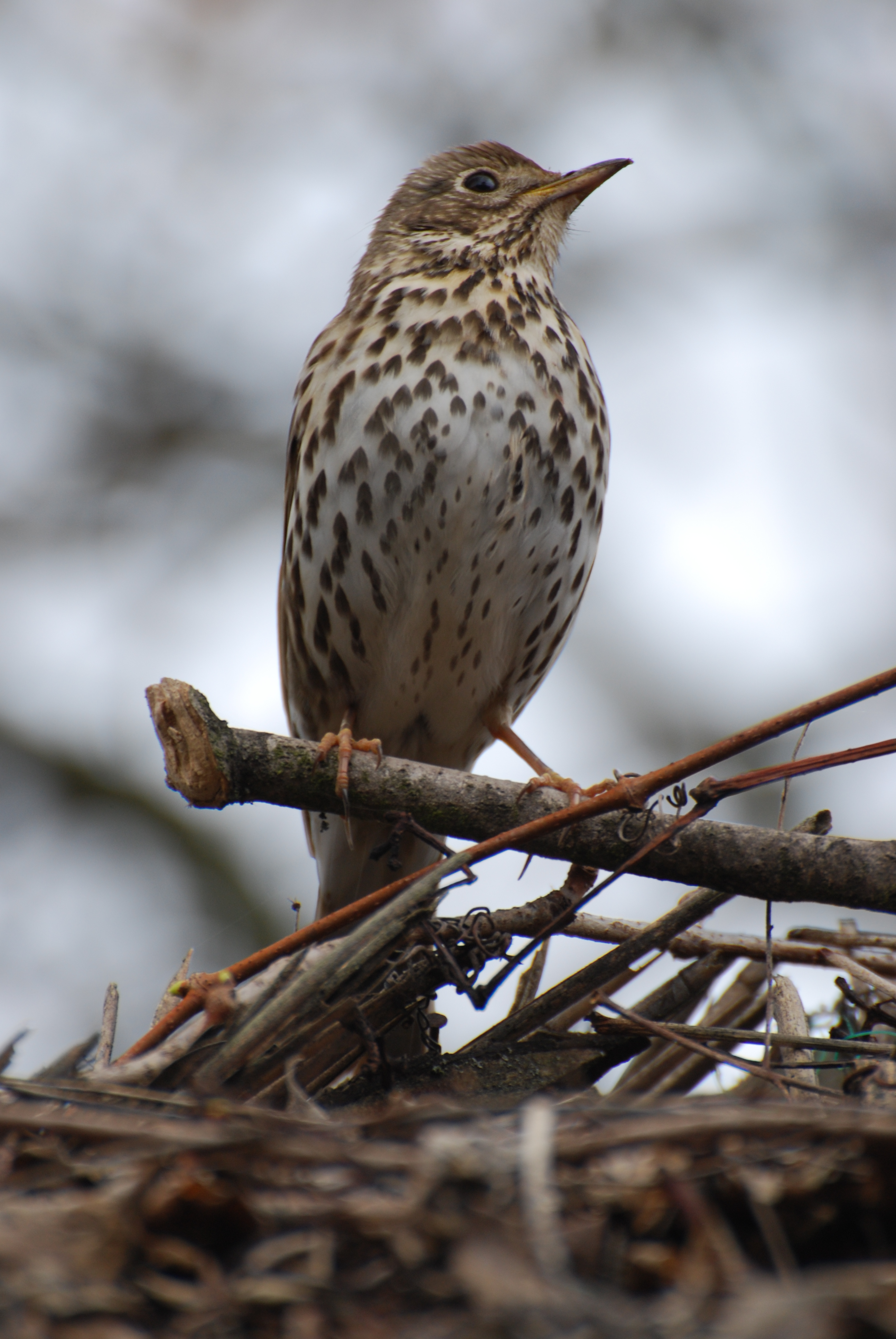 Song Thrush (Turdus philomelos)